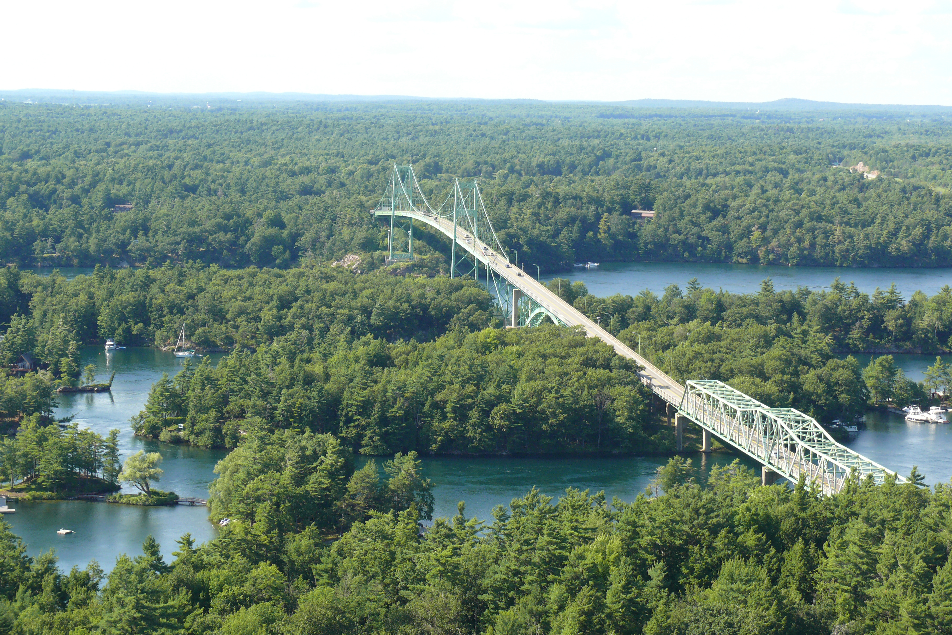 The Thousand Islands Bridge is an international bridge over the Saint Lawrence River connecting northern New York in the United States with southeastern Ontario in Canada in the Thousand Islands region.